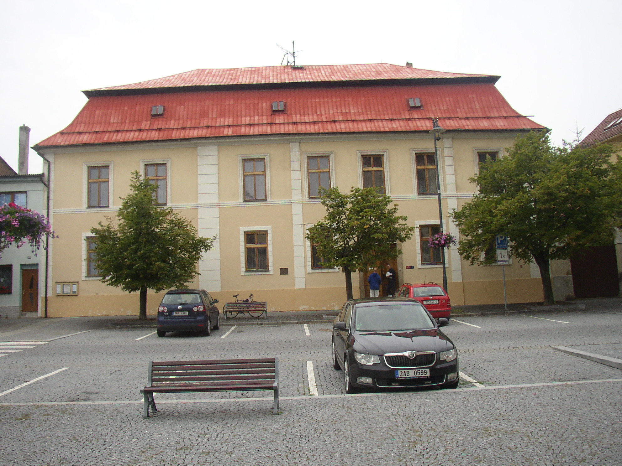 Archdeanery (Roman Catholic parish office) in Kladno, Czech Republic.